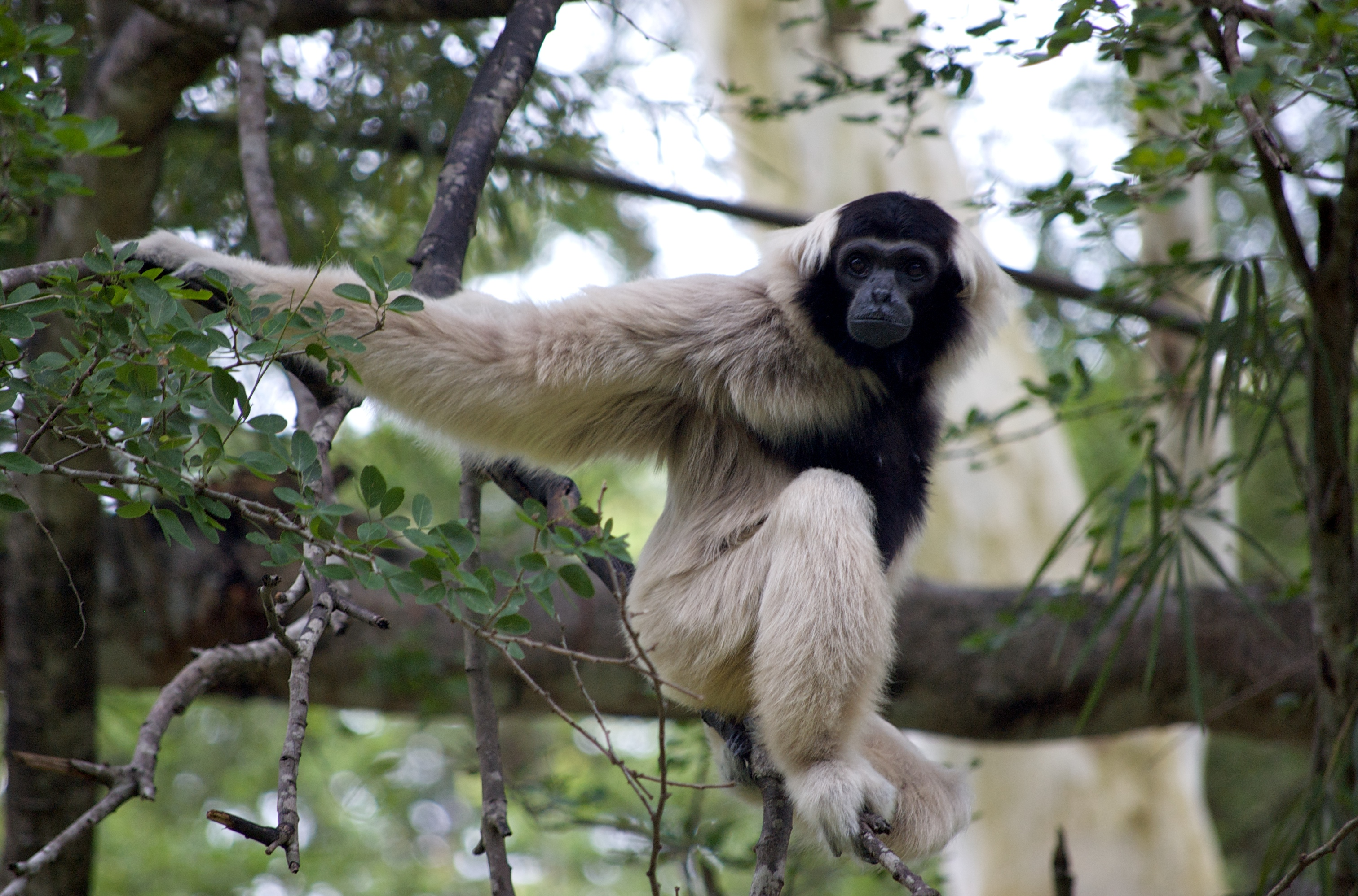 In the branches: gibbon in Khao Kheow Open Zoo